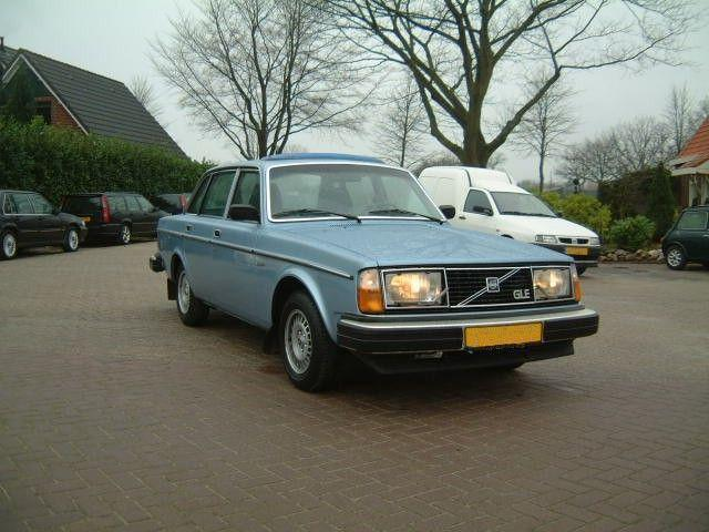 Volvo 244 GLE (Mod. 1980), european version, exterior